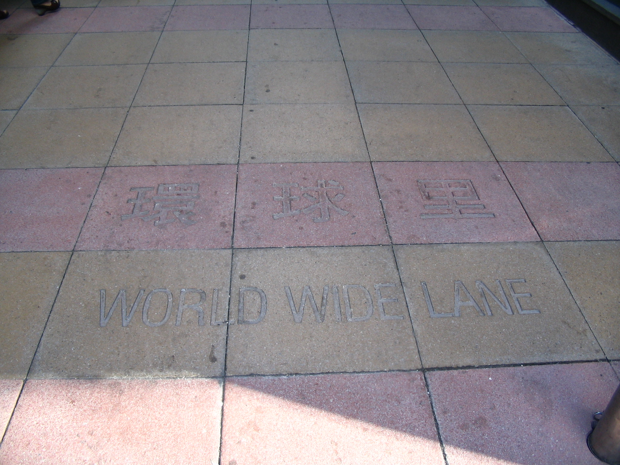 Photo of World Wide Lane